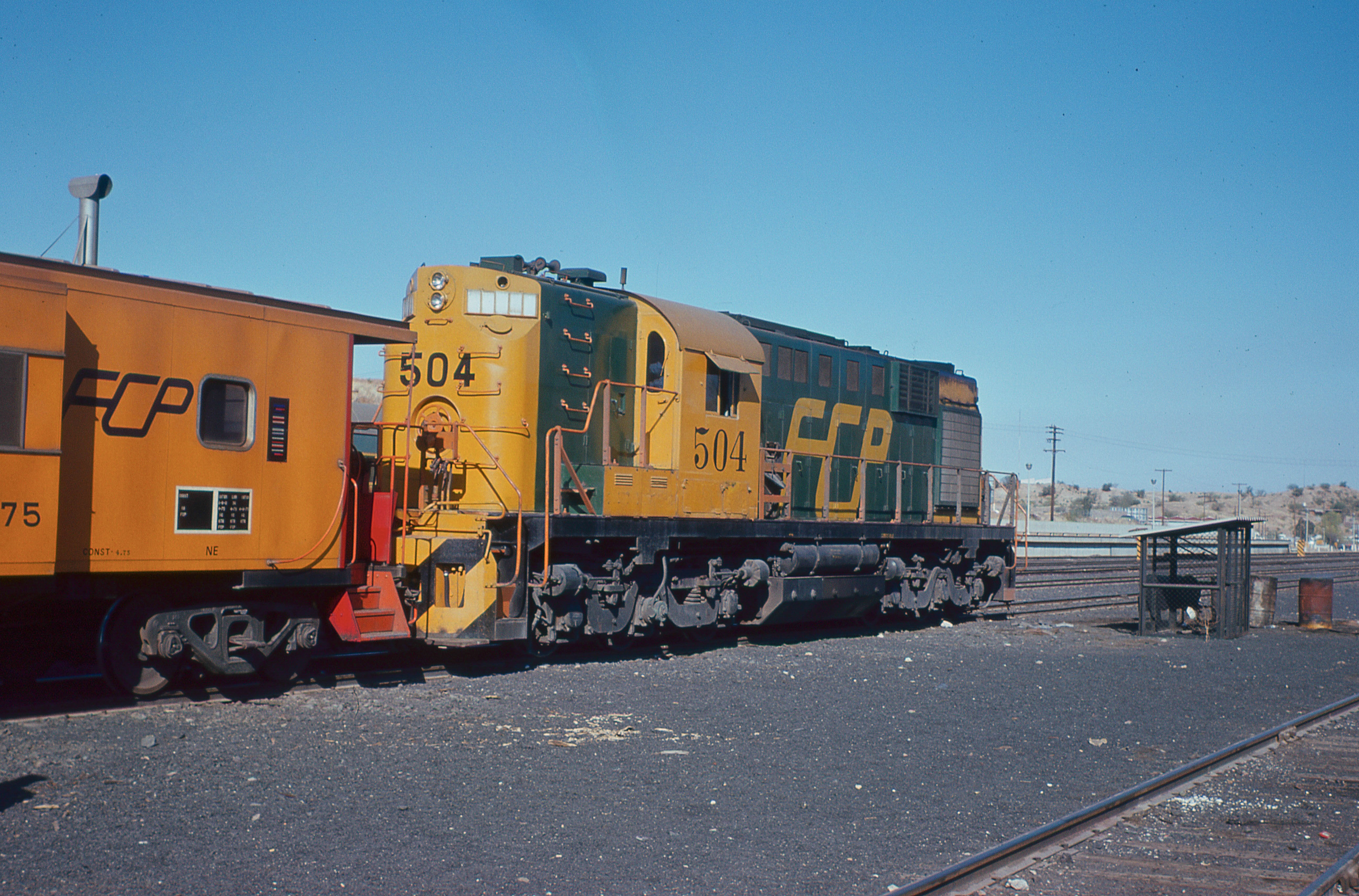 FCP Nogales Sonora Scan of a Kodachrome 64 slide